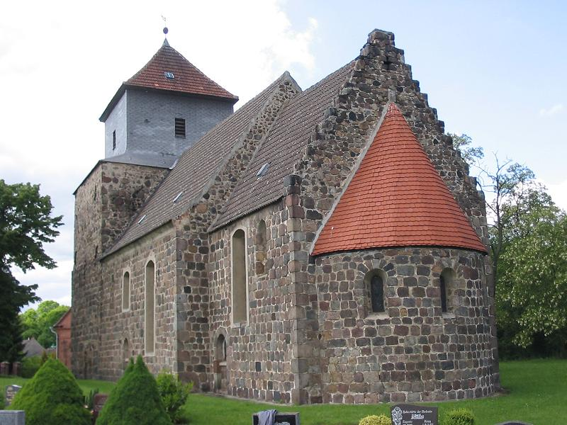 Church Lüsse, built in 13th century, spire in 15th/16th century. Lüsse is an incorporated part of the town Belzig in Brandenburg, Germany.